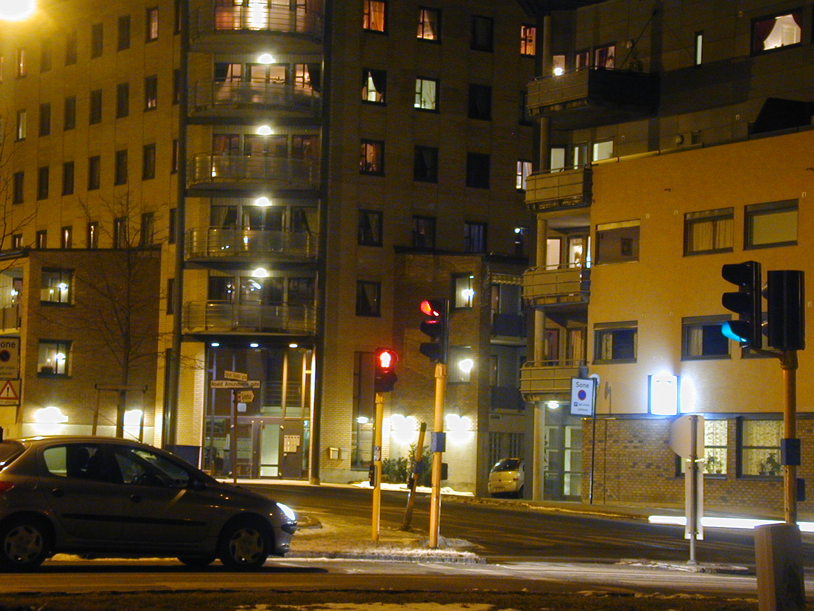 Downtown Sarpsborg, Tarnet appartment building. (Copyright, Kenip, 2007)